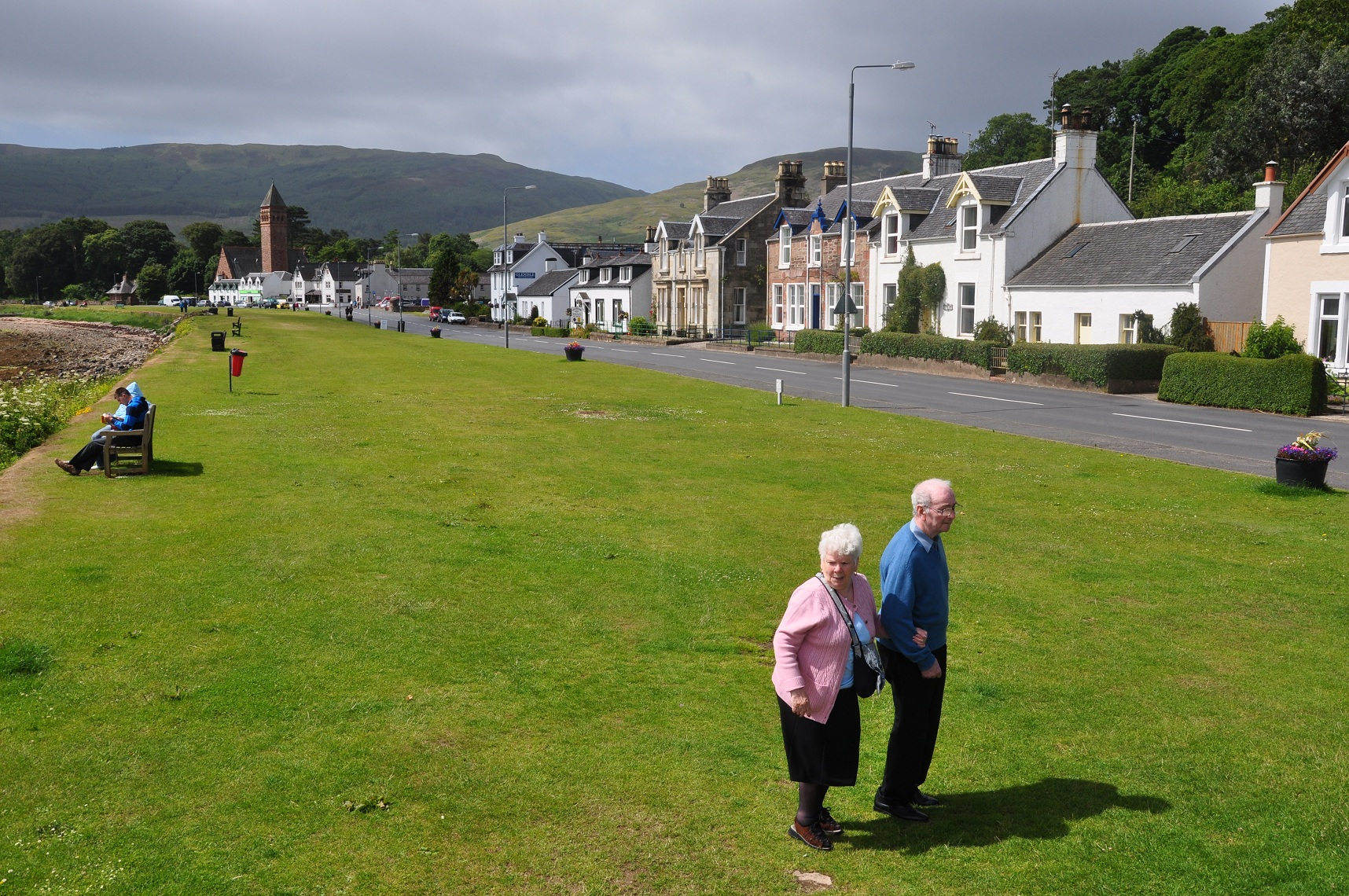 The seafront at Lamlash, Isle of Arran, Scotland, with Kilbride Parish church in the distance.